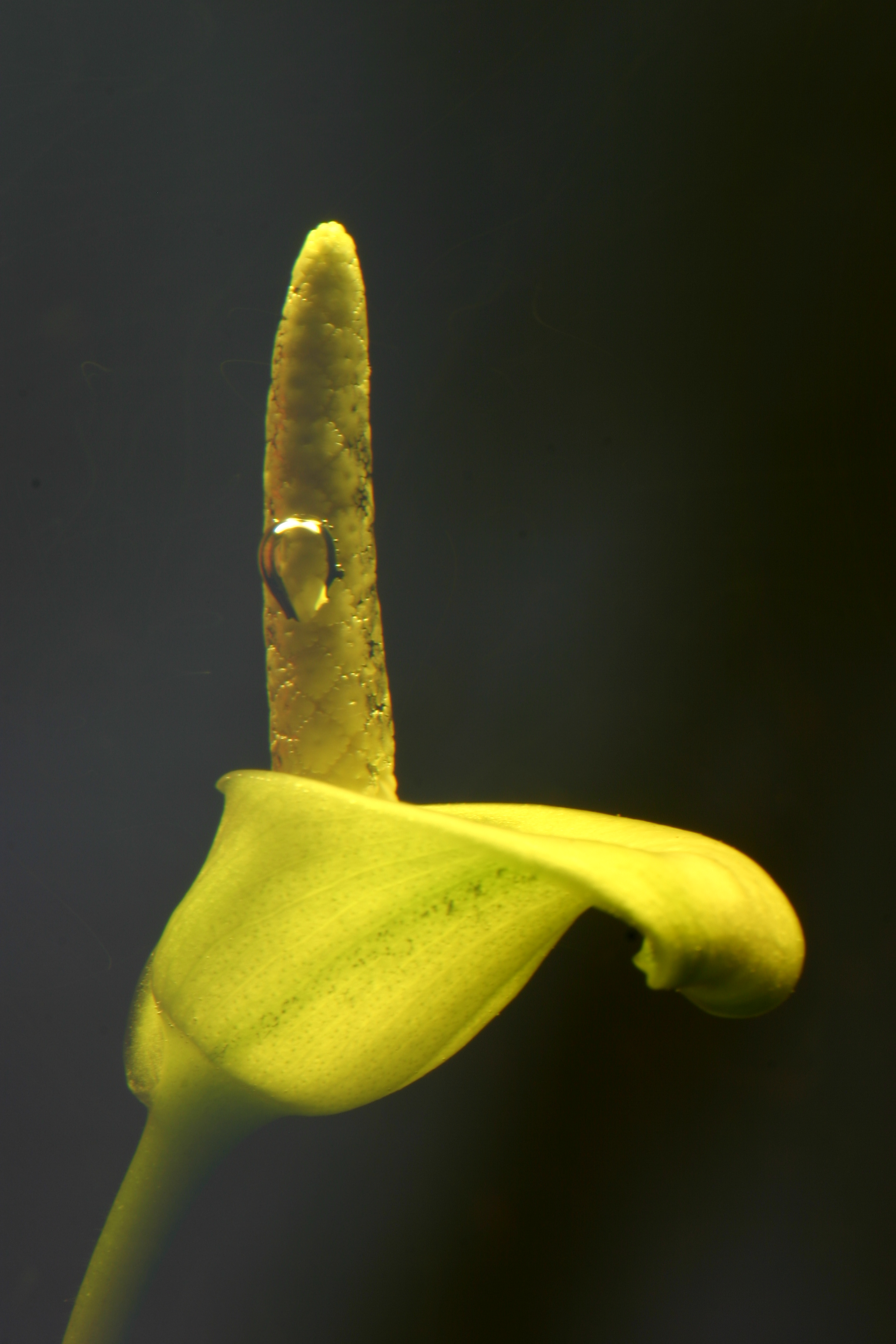 Flower of the blossoming water plant Anubias. The flower is inside the aquarium, you can see air bubbles. The flower stands vertical of course (in the case your viewer does not support orientation by EXIF).